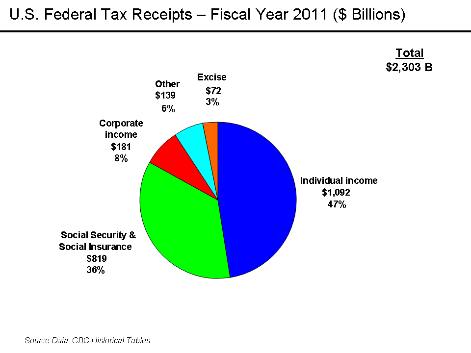 U.S. Federal Tax Receipts - FY 2011